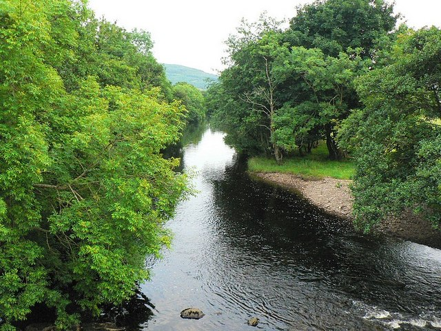 The River Add Looking south from the bridge on the road north from Kilmichael Glassary